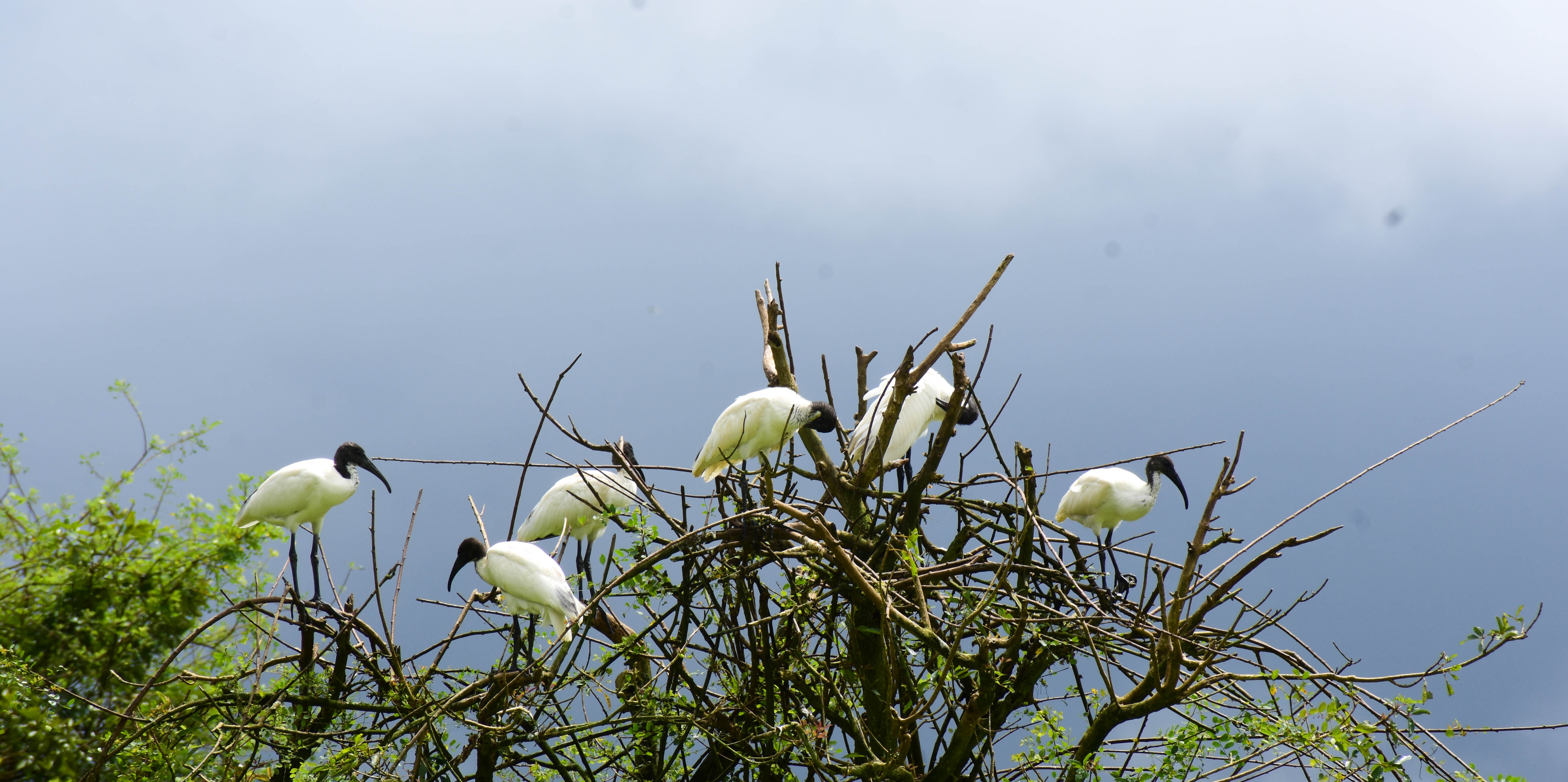 A group of Ibis resting on a tree at Gudavi